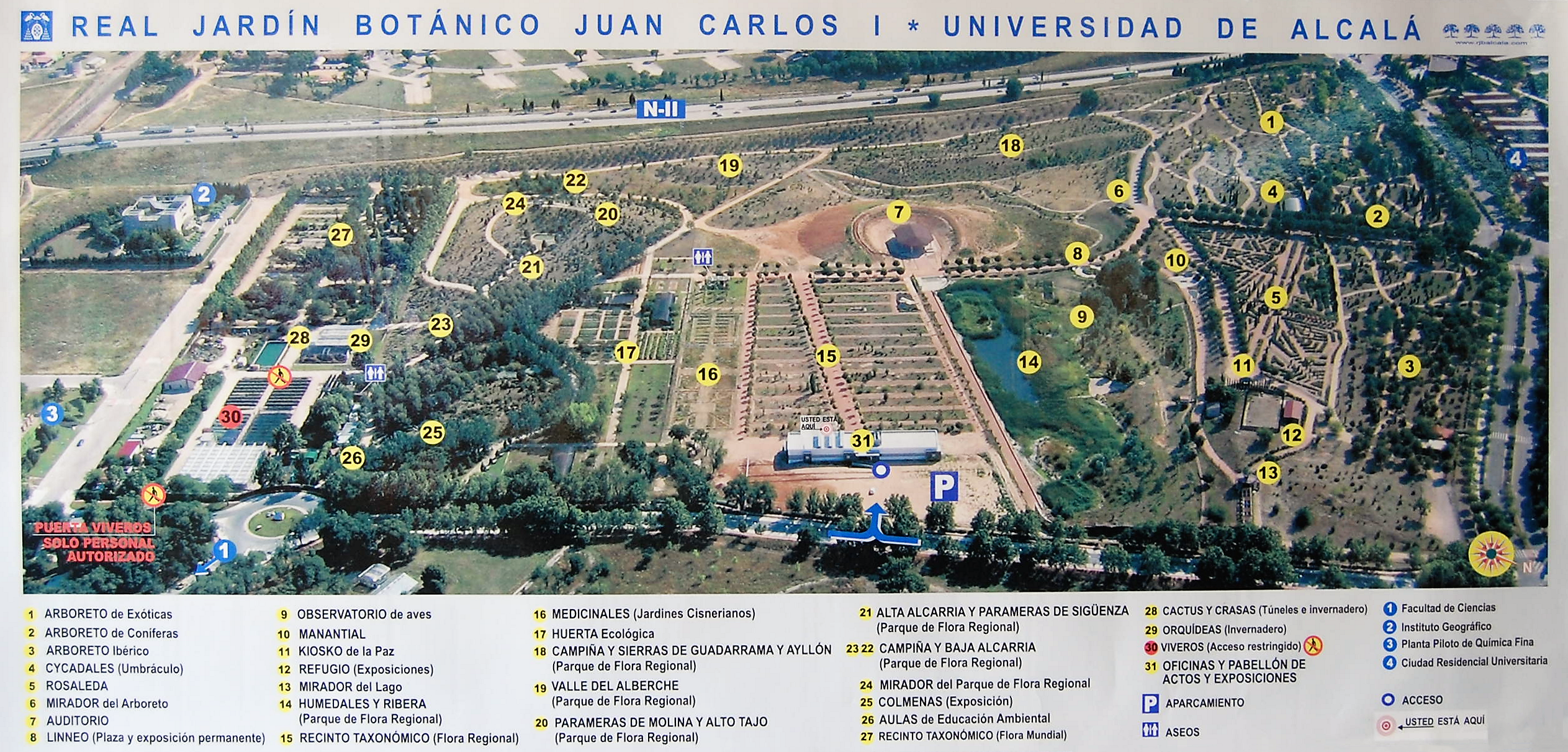 Royal Botanic Gardens, Juan Carlos I, located on the campus of Alcalá de Henares (University of Alcalá). Founded in 1990. Wide of the facilities.